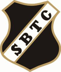 Badge of the Hungarian football club Salgótarjáni Barátok Torna Club